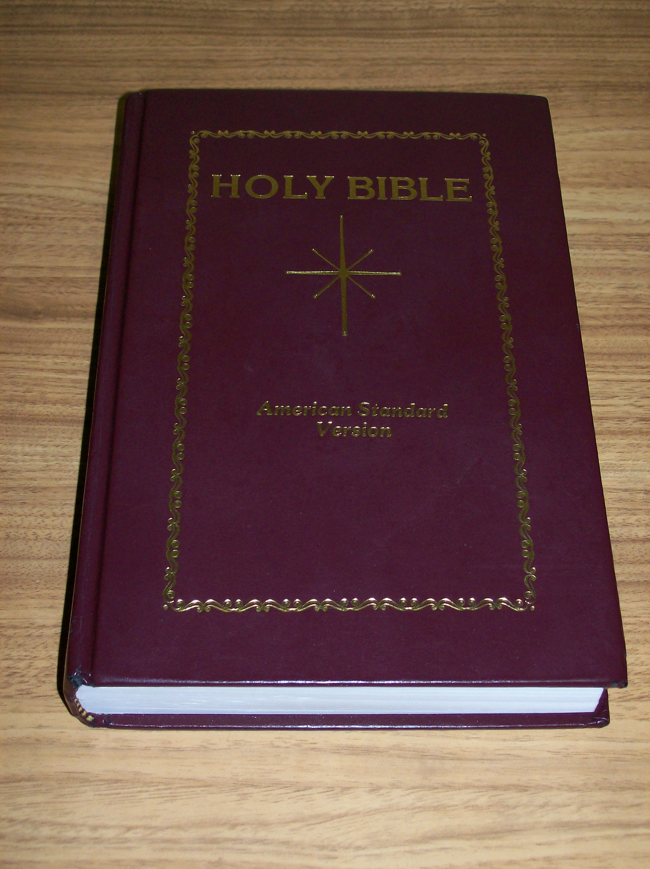 This is a photo I took of my personal copy of Star Bible's re-release of the American Standard Version on September 15, 2007 at about 7:15 pm CDT. I created the photo. The American Standard Version, formerly a copyrighted work, has passed into the public domain. No challenge to Star Bible's ability to sell the ASV is implied. This image is being inserted into the article on the American Standard Version.